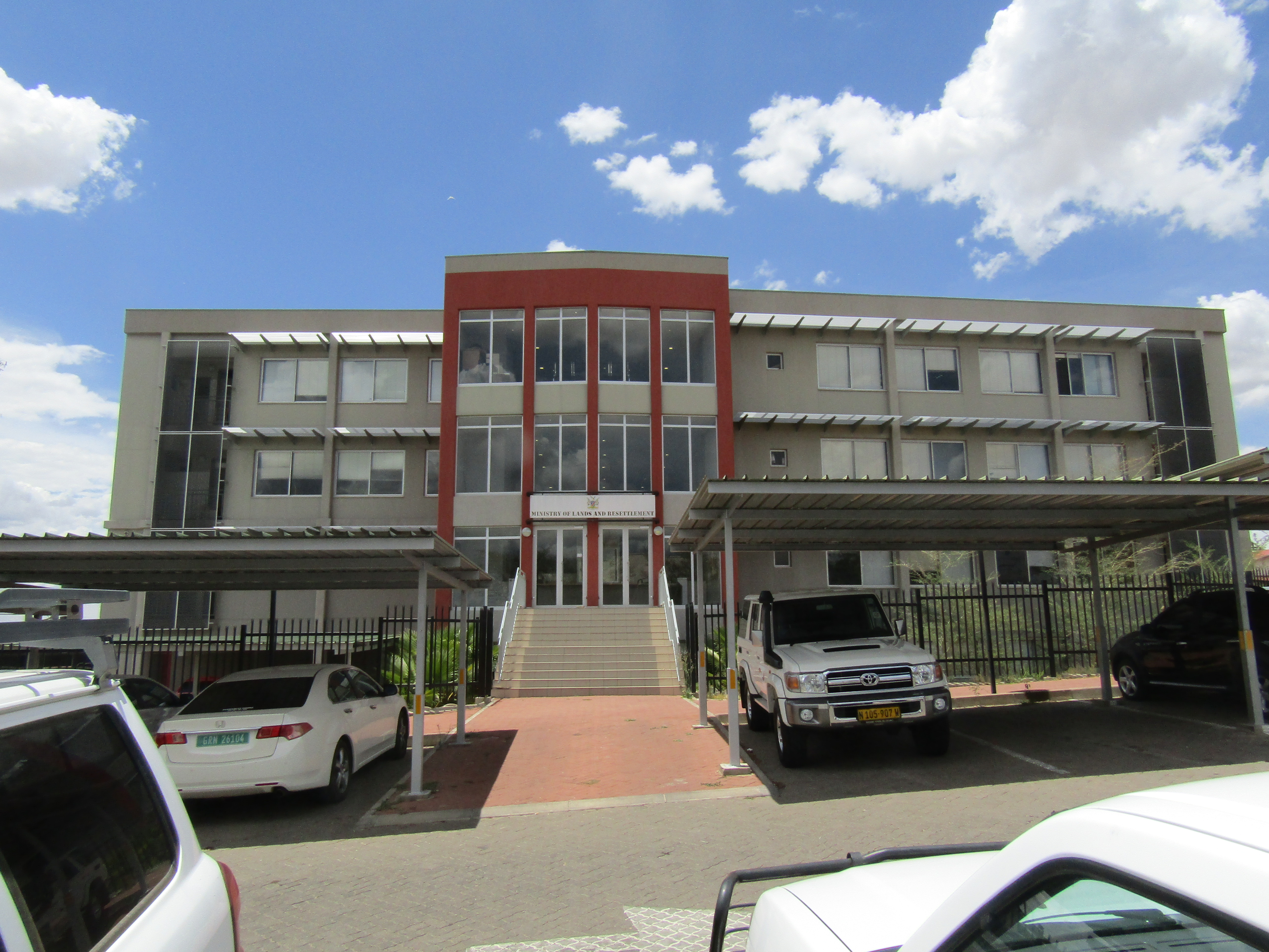 Headquarter (south entrance), Ministry of Land Reform, Windhoek, Namibia